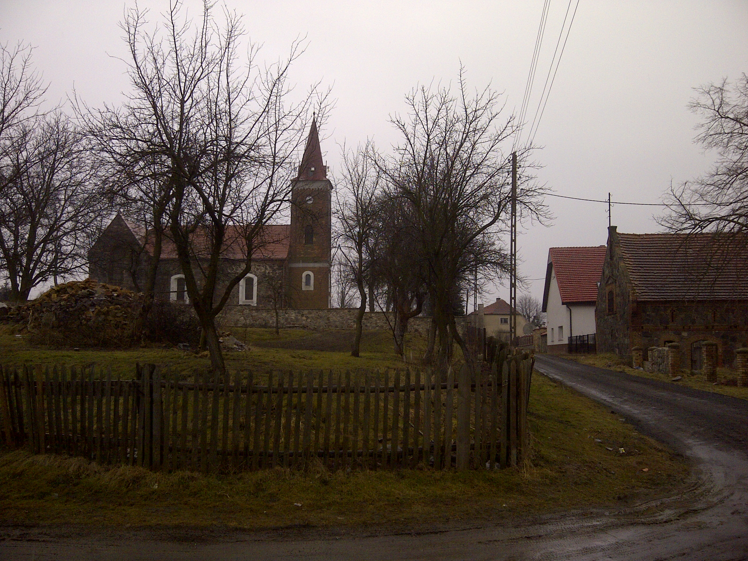 The church of Drzensko